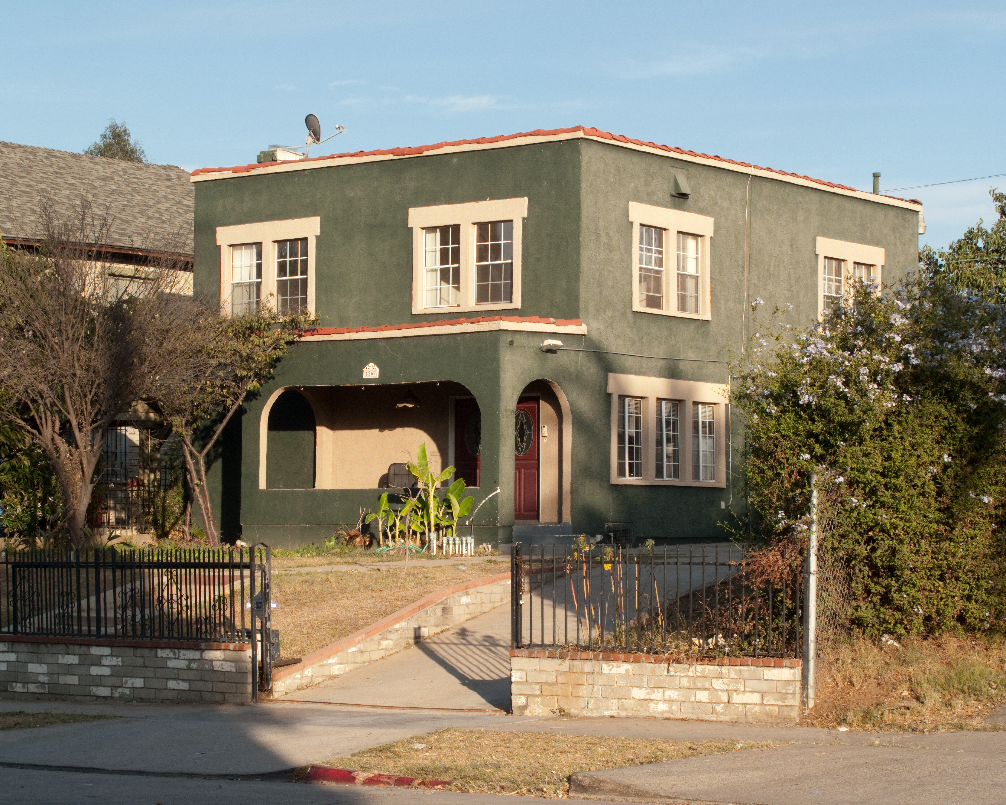 William Grant Still residence, 1262 S. Victoria Ave., Los Angeles, CA, just north of Pico Blvd. This is Los Angeles Historic-Cultural Monument #169.